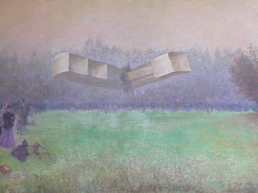 Joaquim Fernandes Machado. First flight of Santos Dumont, ca. 1906. Oil on canvas, 228 x 164 cm. Pinacoteca do Estado do Amazonas collection, Manaus, Brazil.